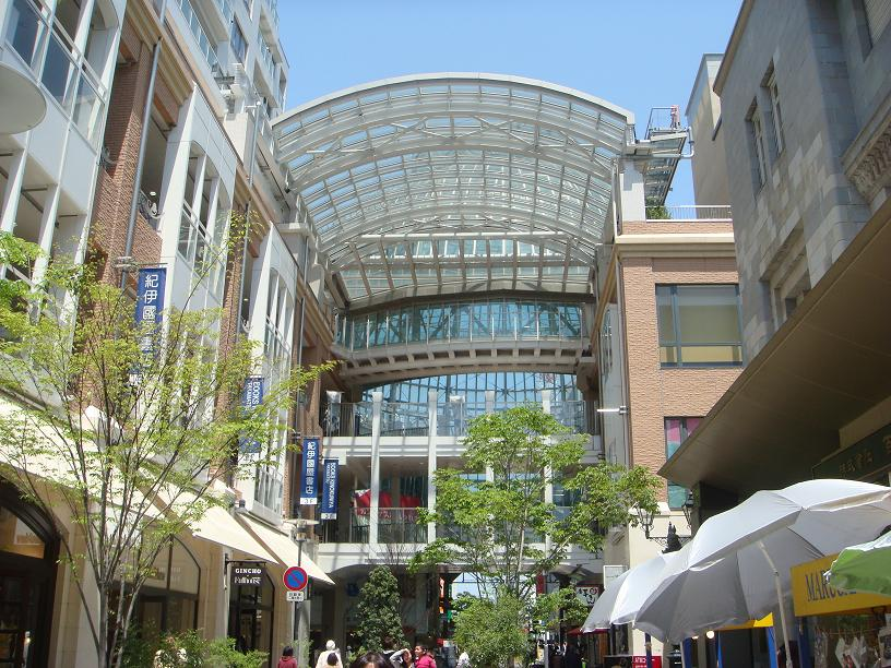 Takamatsu city